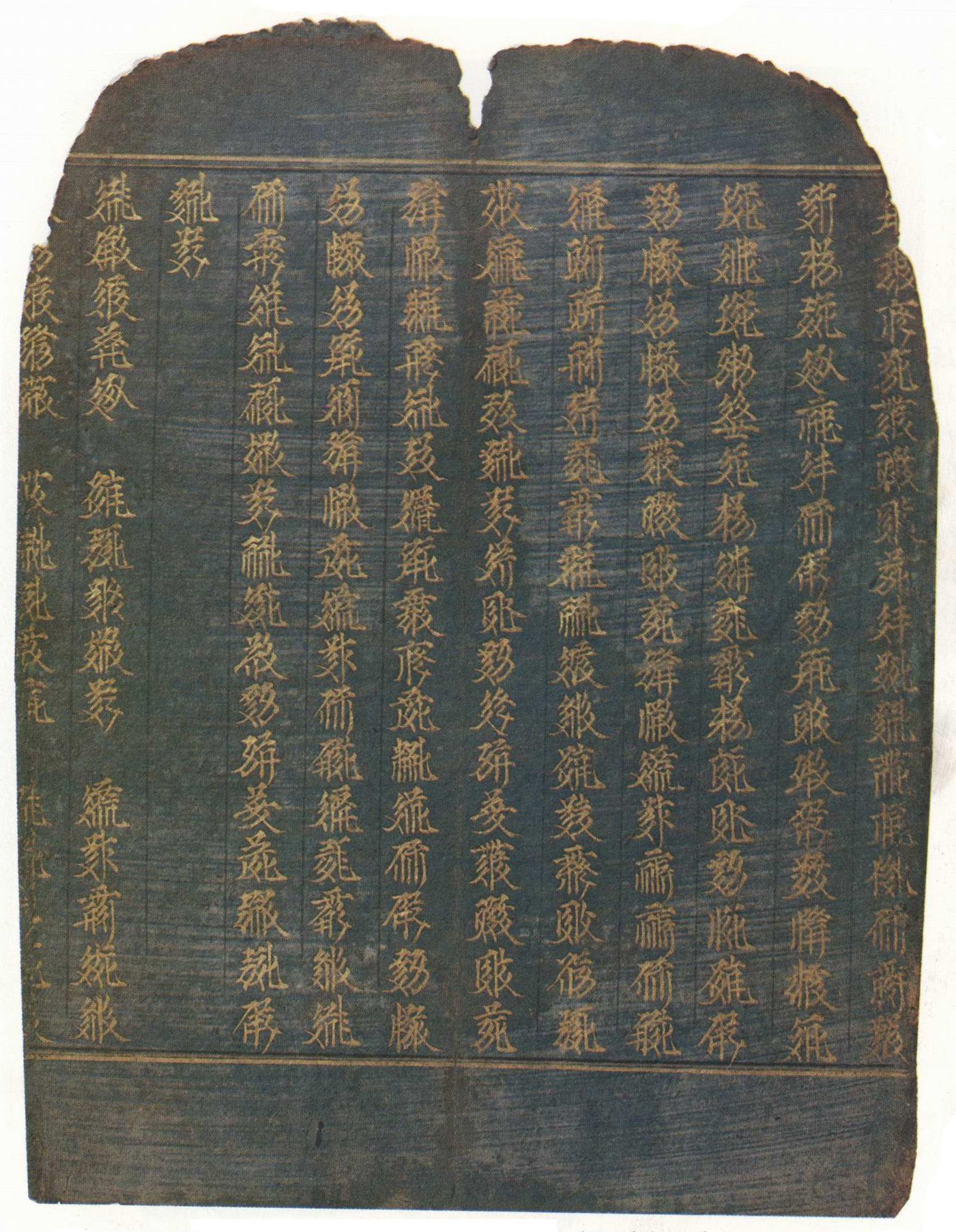 Page from a 11th-13th century chrysographic manuscript edition of the "Golden Light Sutra" (Suvarnaprabhasottamaraja Sutra) written in Tangut.